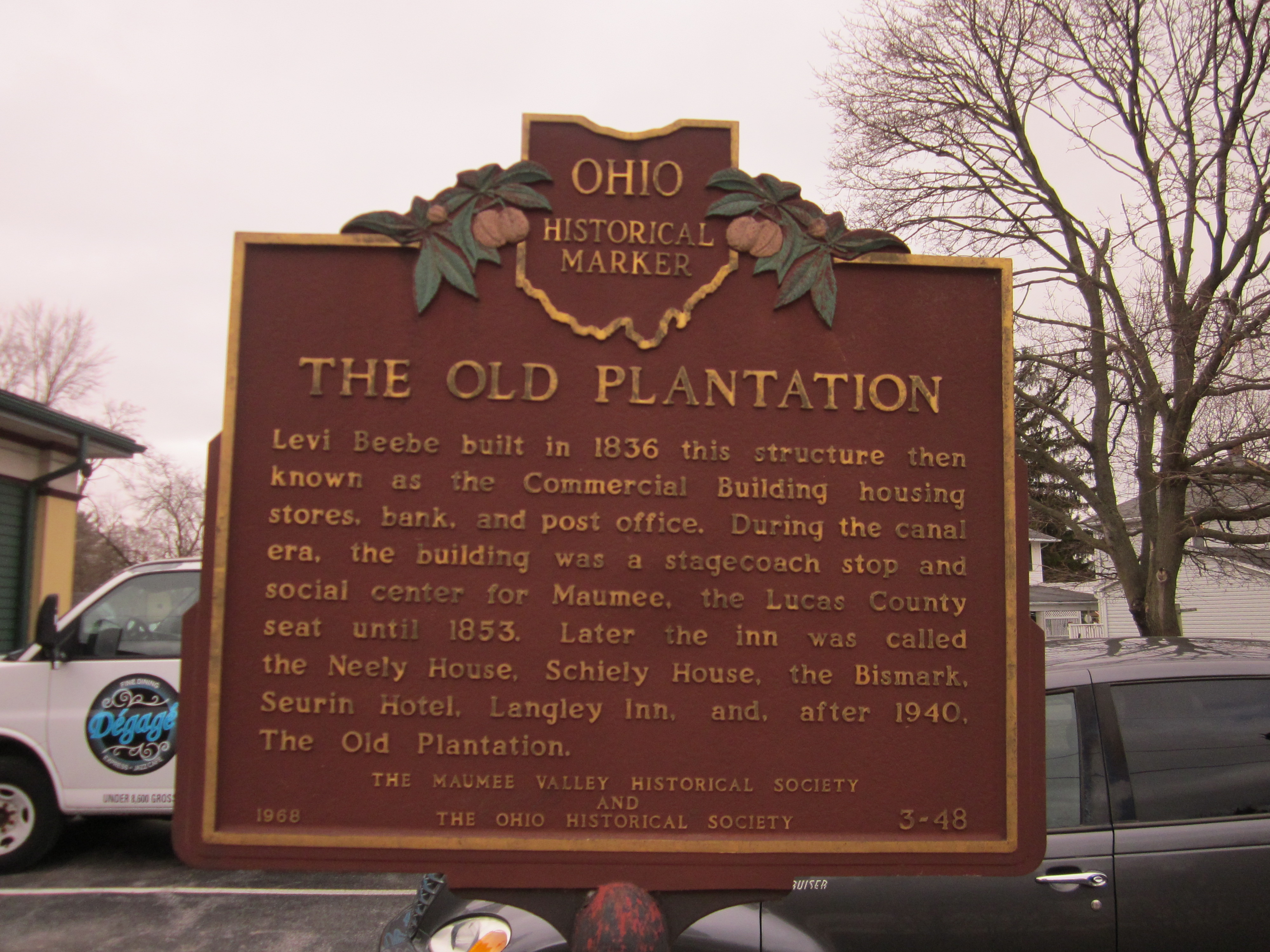 This plaque tells the outline history of what is known locally as the Governor's Inn, Maumee, Ohio